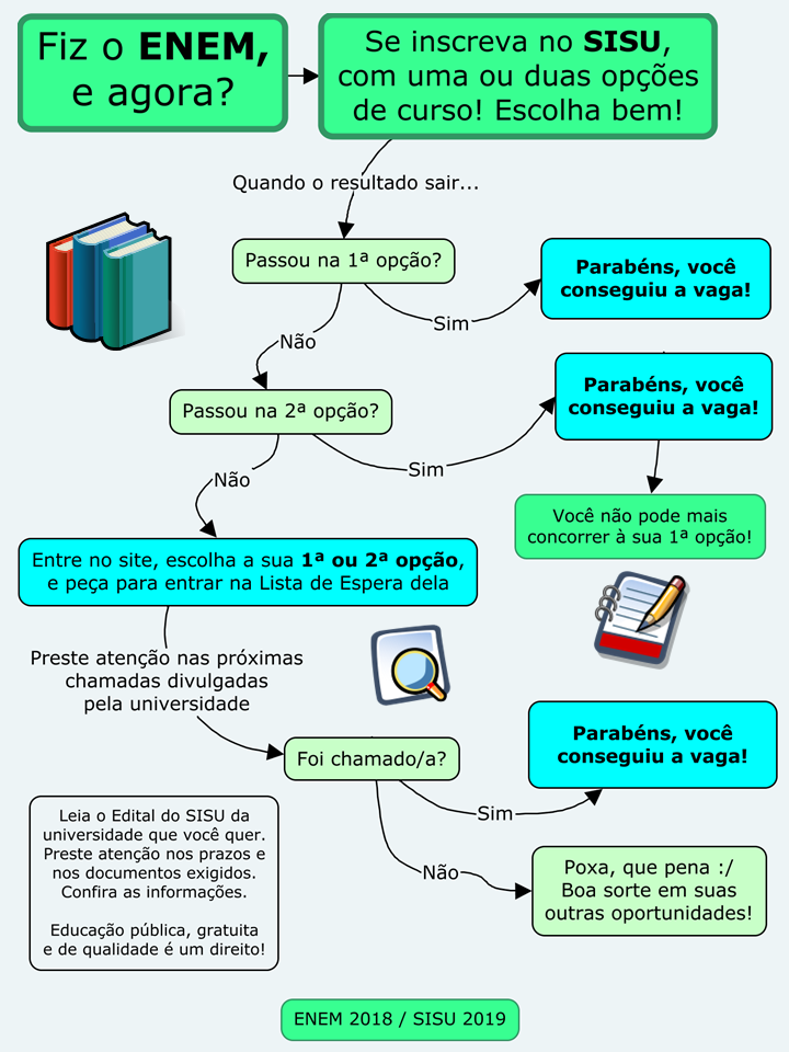 Flow chart describing details on how SISU works, which is a system used in Brazil for entrance in universities and other institutions of third level education. People who took ENEM can apply for SISU. Image made using File:Gartoon_apps_kate.svg and File:Gartoon_actions_contents_replaced.svg.